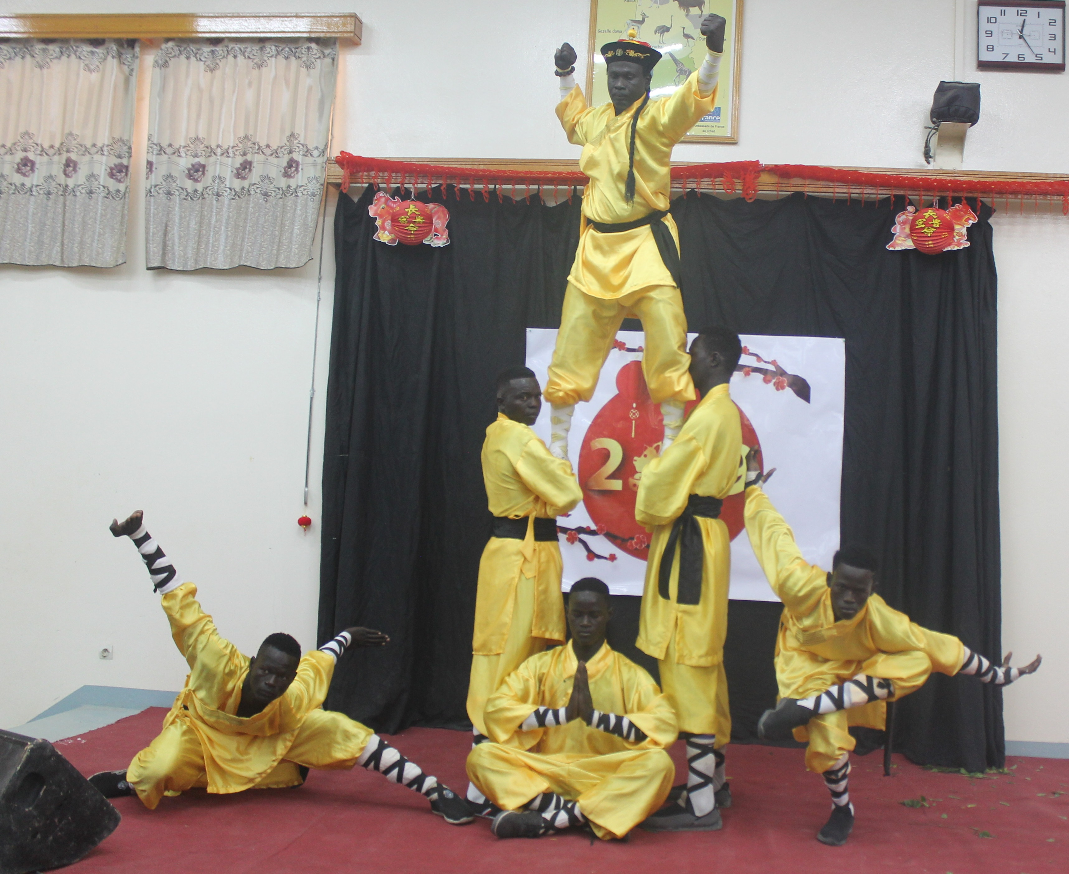 This is an image with the theme "Play" from: Chad